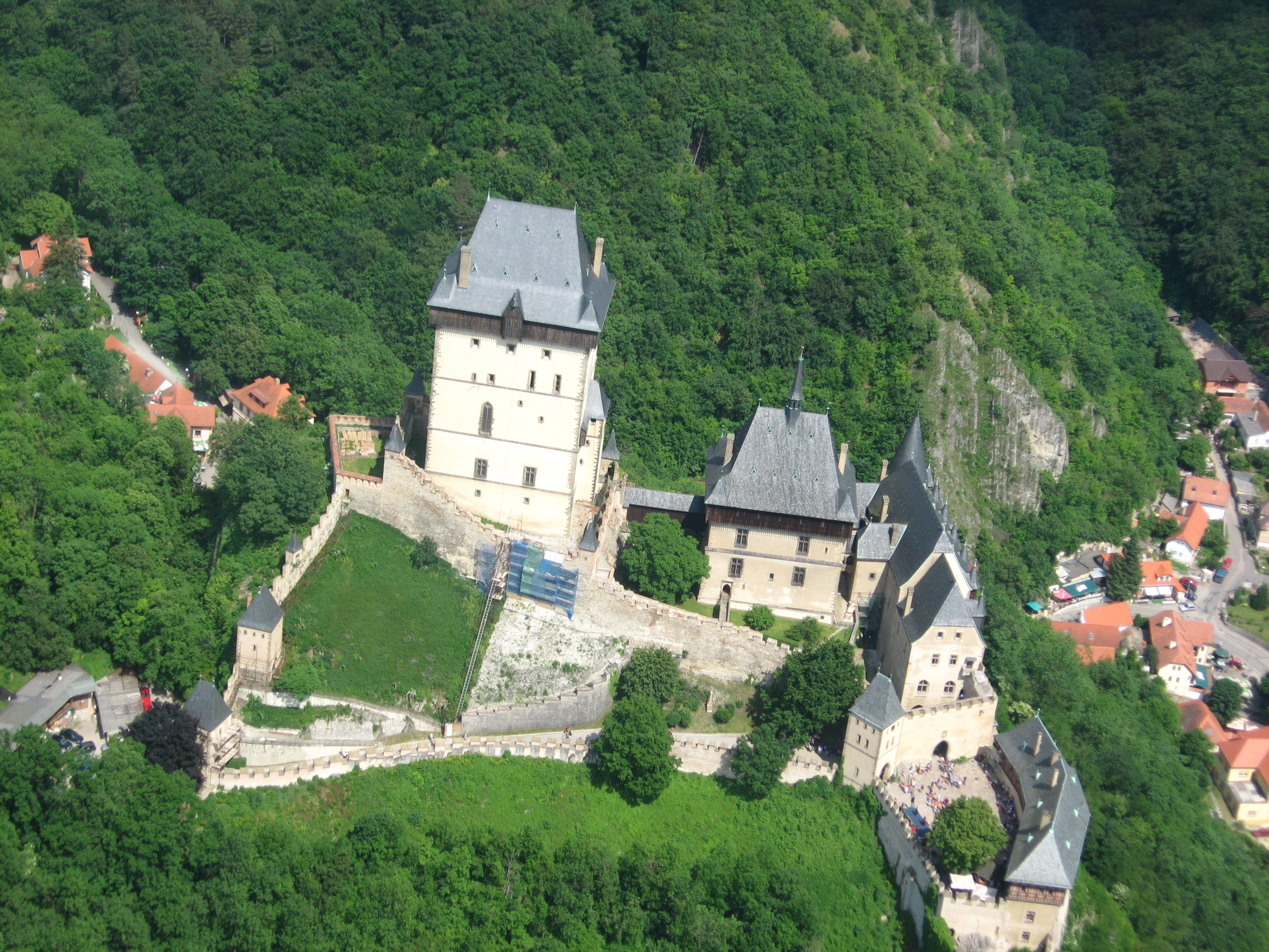 Castle Karlštejn